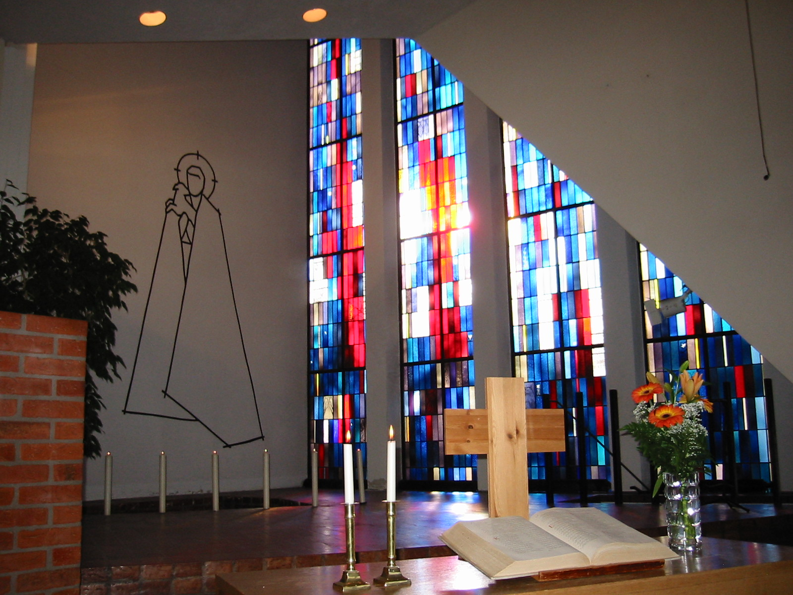 Kyrkan vid Brommaplan (the Church at Brommaplan) interior.